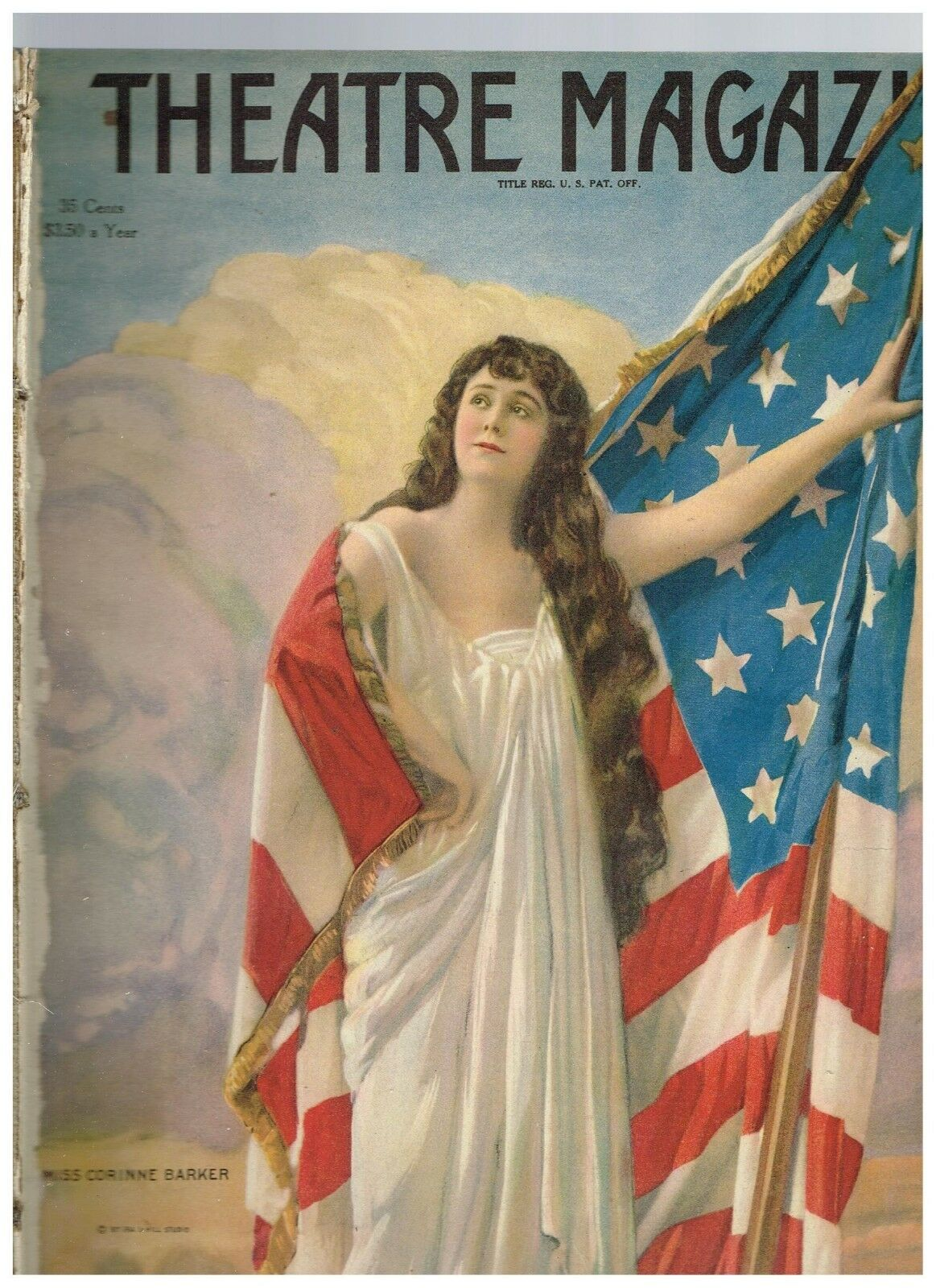 Cover of Theatre magazine